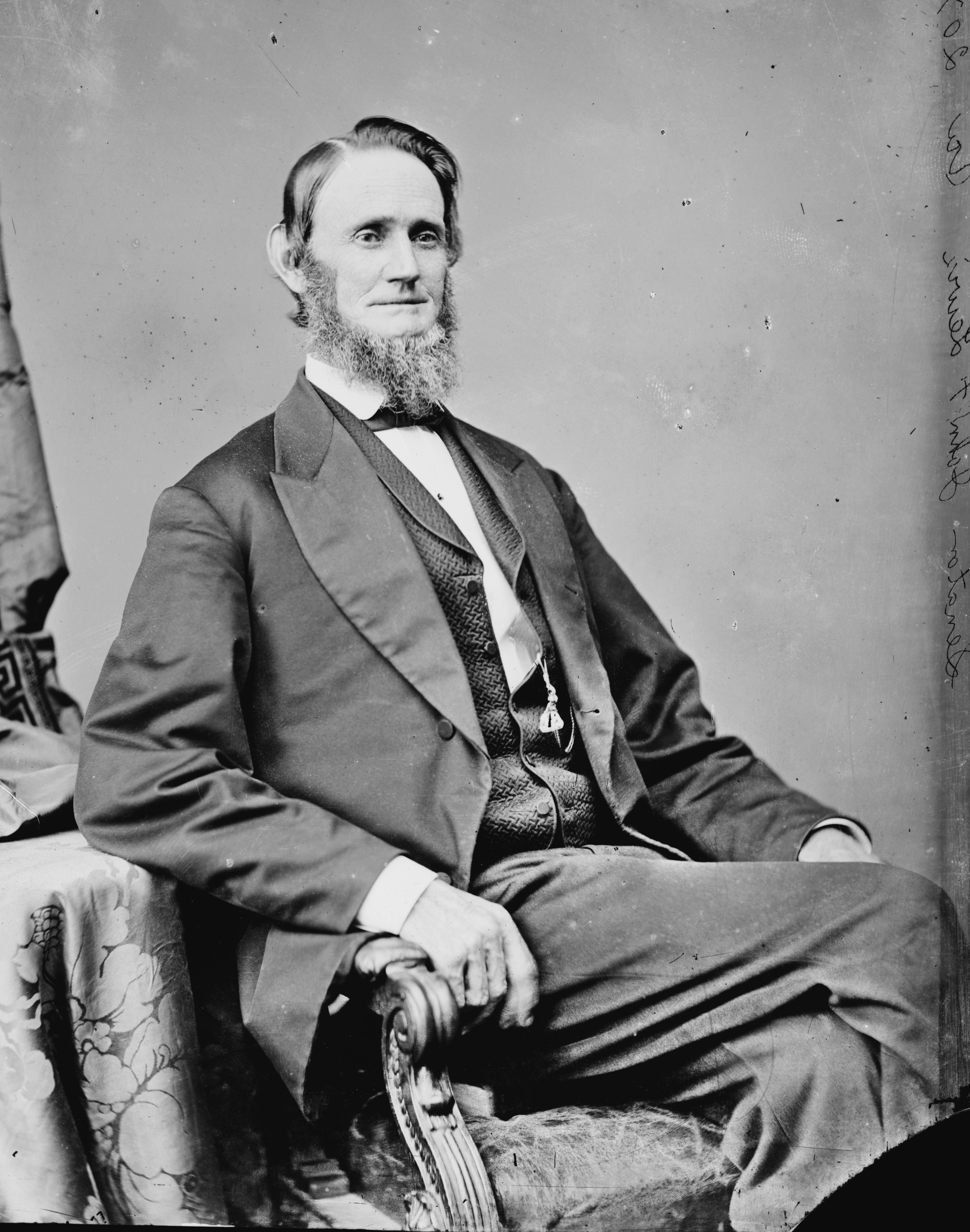 John F. Lewis. Library of Congress description: "Hon. John Francis Lewis of Va."